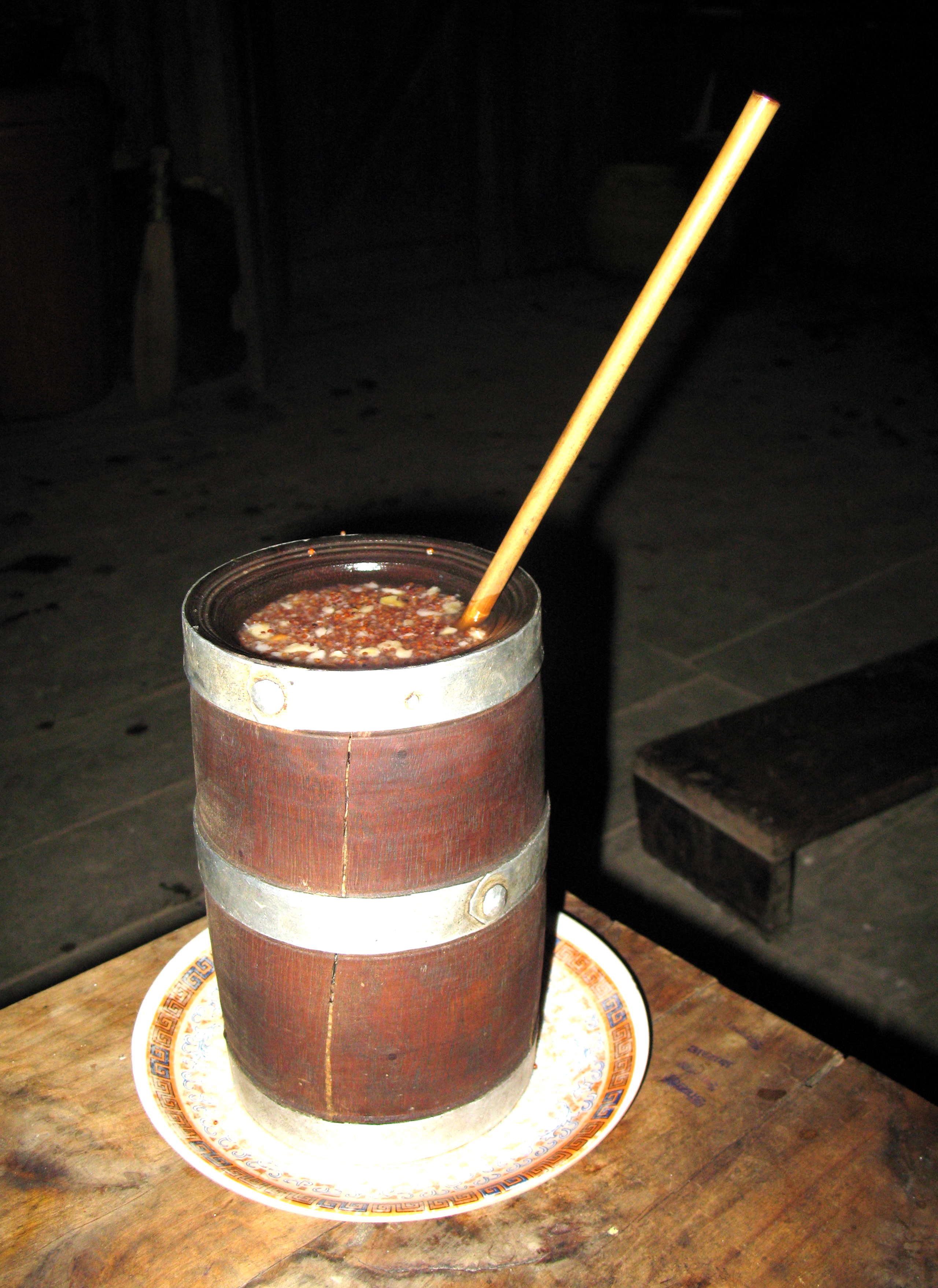 Tongba as offered to the uploader in a house in Kalpokhri on the India-Nepal border.